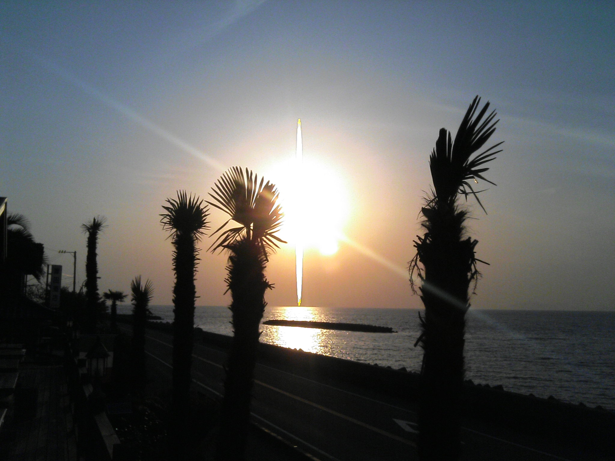 The sunset along the Futami coast in Iyo, Ehime, Japan